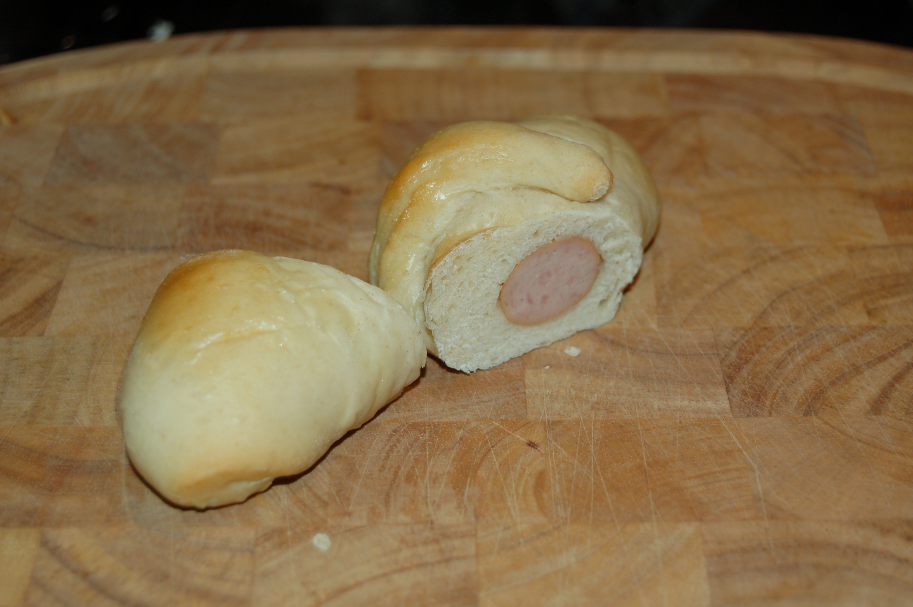 Pølsehorn - Danish for sausage+horn - a sausage wrapped in yeast dough and baked in the oven